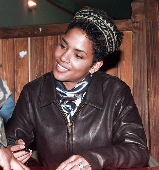 Halle Berry signs autographs for US soldiers at Tuzla Main Base, Bosnia-Herzegovina, during Operation JOINT GUARD.